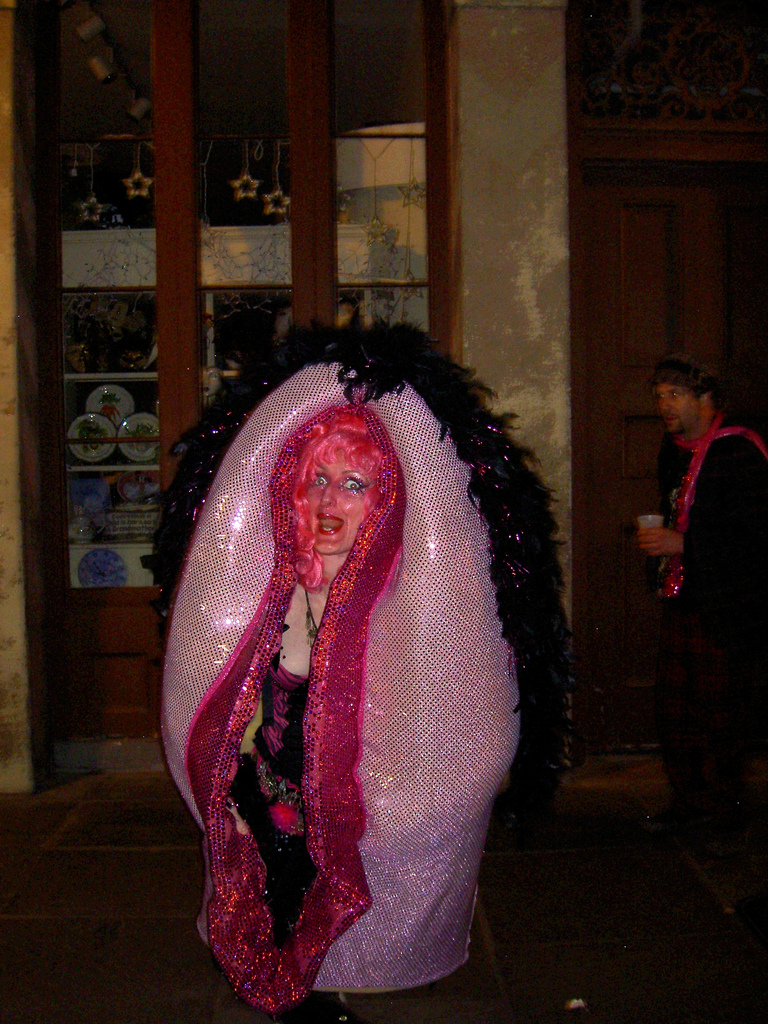 Halloween in New Orleans. Vagina costumer.